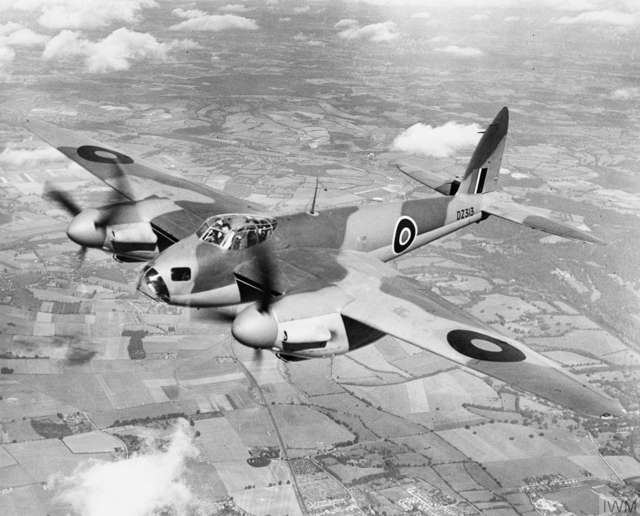 Aircraft of the Royal Air Force 1939-1945- De Havilland Dh.98 Mosquito. Mosquito B Mark IV Series 2, DZ313, in flight shortly before delivery to No. 105 Squadron RAF at Horsham St Faith, Norfolk, as ‘GB-E’.